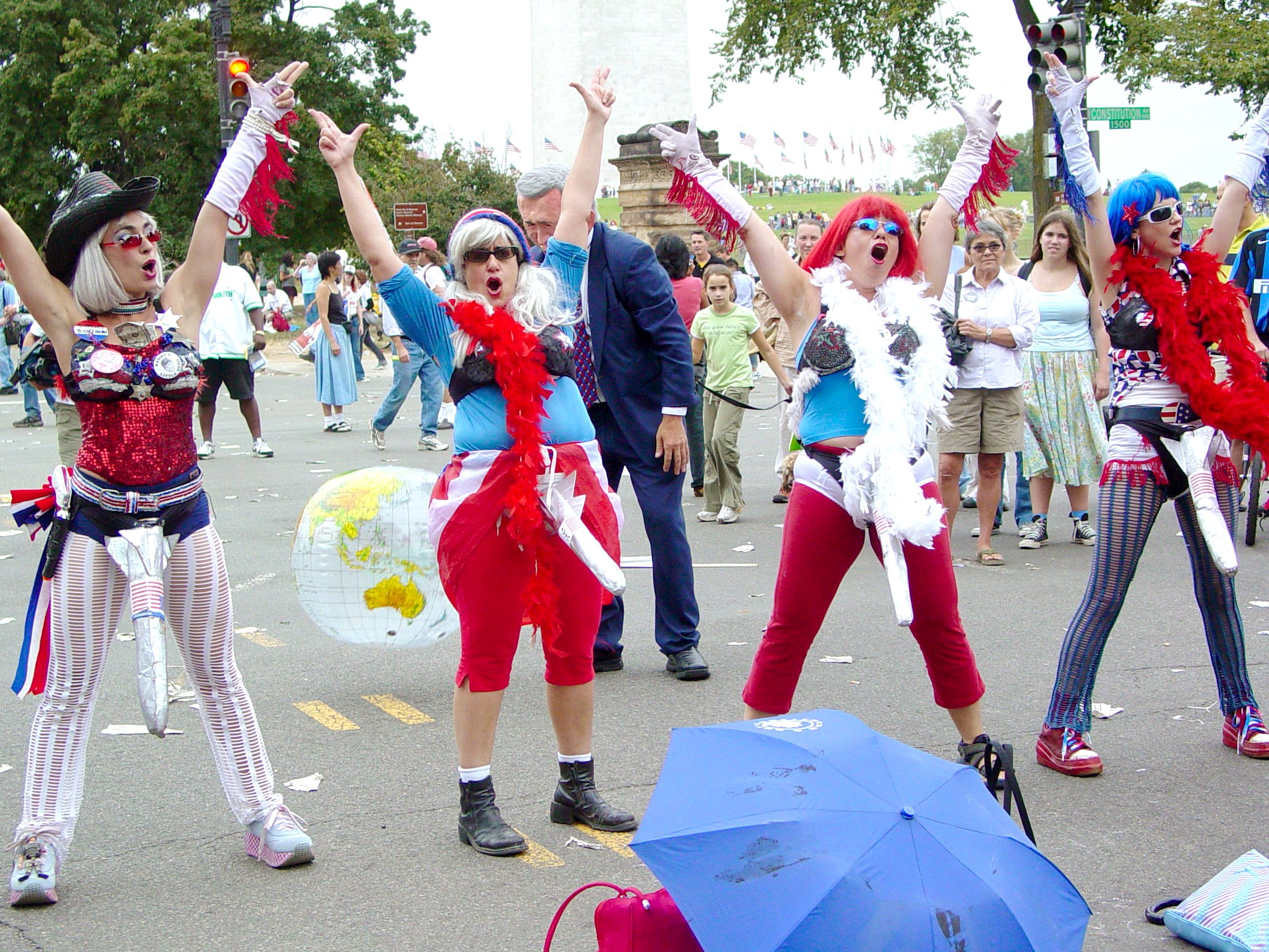 Women dressed in red, white, and blue outfits with missiles strapped around their hips do cheers in the street as part of the September 24, 2005 anti-war protest in Washington DC. Source: The Schumin Web, September 24 Protests